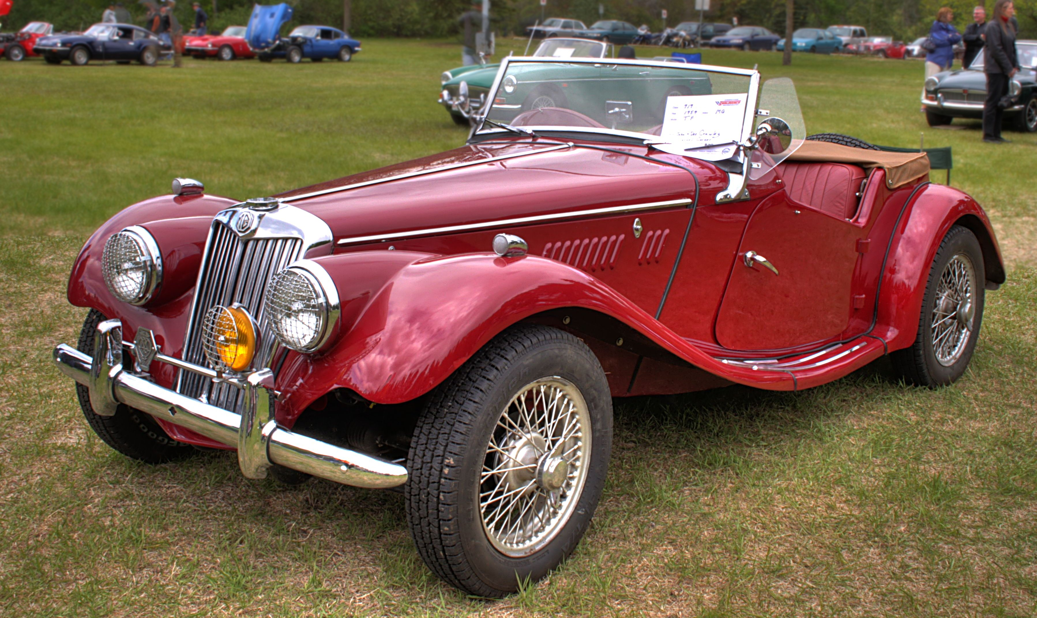 A 1954 MG TF 1250 sports car.